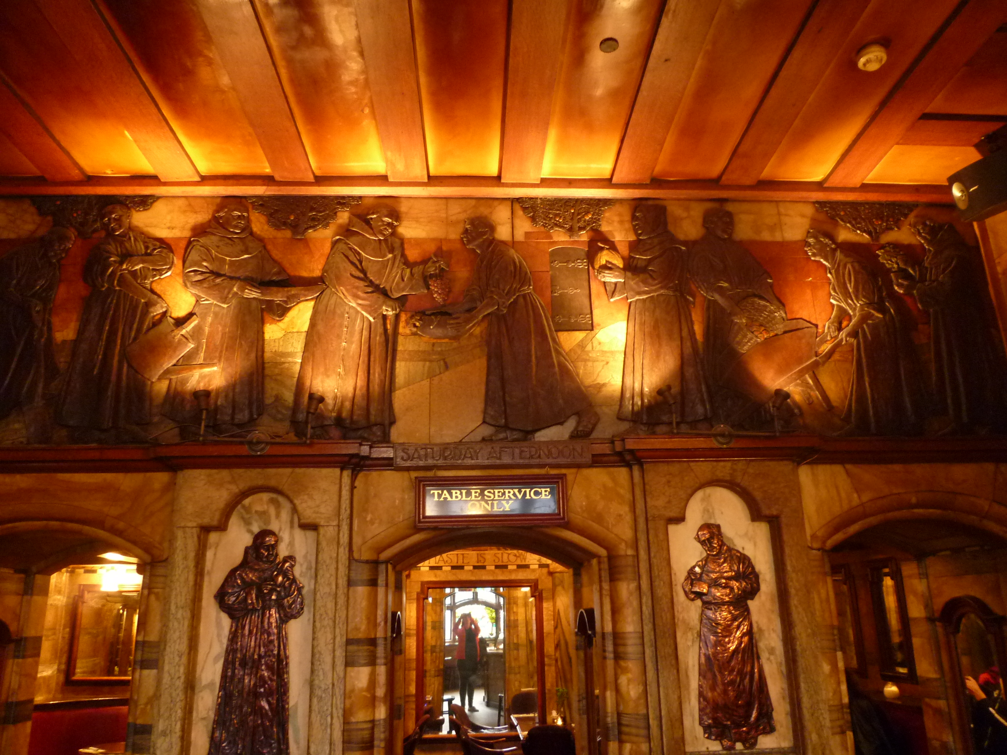 Exterior and Interior of The Black Friar Pub, built in 1905. One of the best examples of Art Nouveau buildings in London.